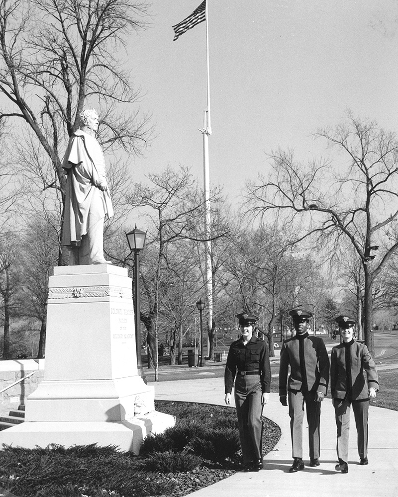 Class of 1980 Cadets Carol A. Young, Gregory Stephens, and Kathryn A. Wildey at West Point, December 1976.